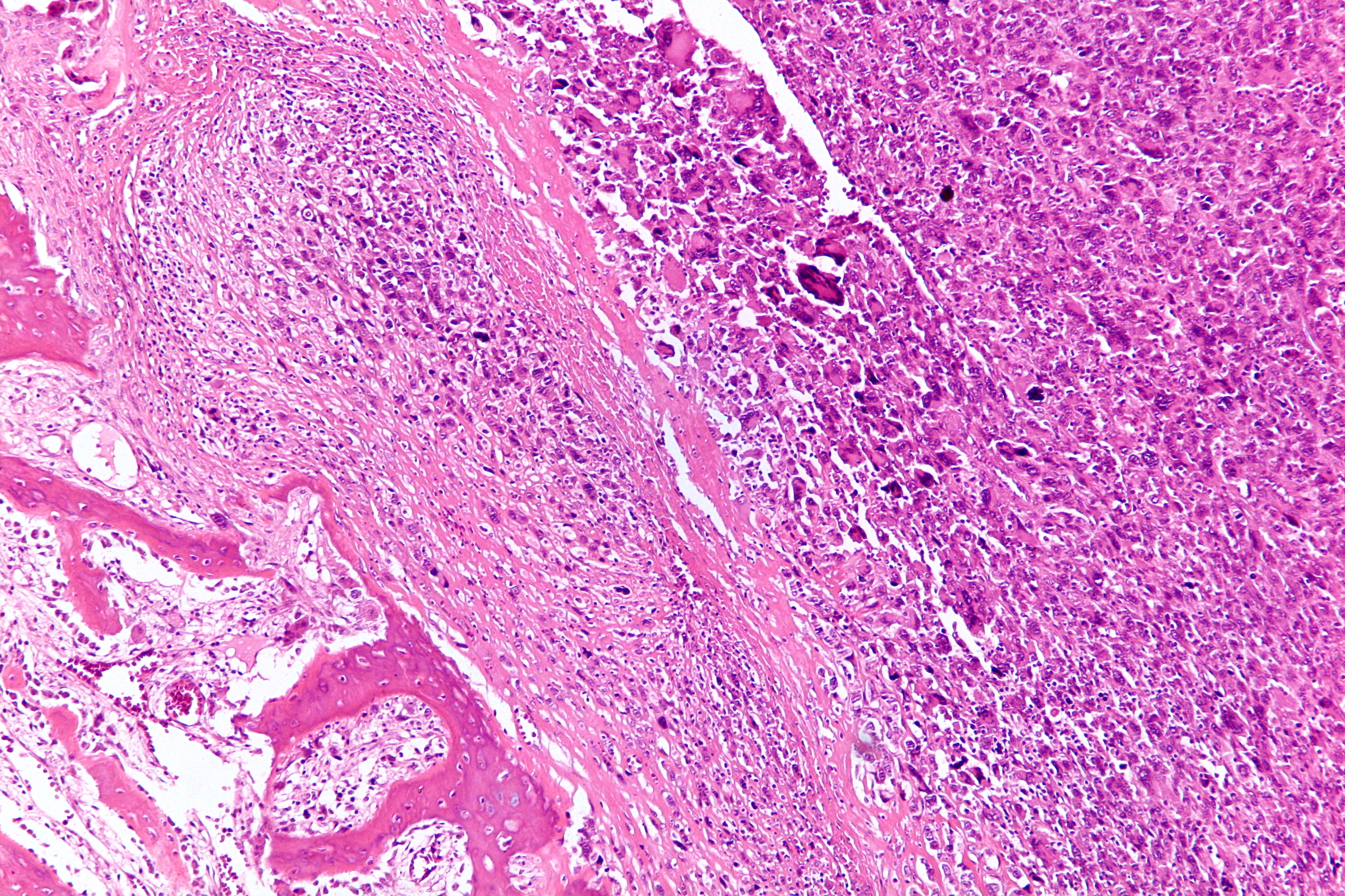 Intermediate magnification micrograph of a high-grade osteosarcoma. H&E stain. By definition, osteosarcomas form osteoid (the organic extracellular component of bone), which is pink, bland/homogenous on H&E staining. Related images Low mag. Intermed. mag. High mag. Very high mag.